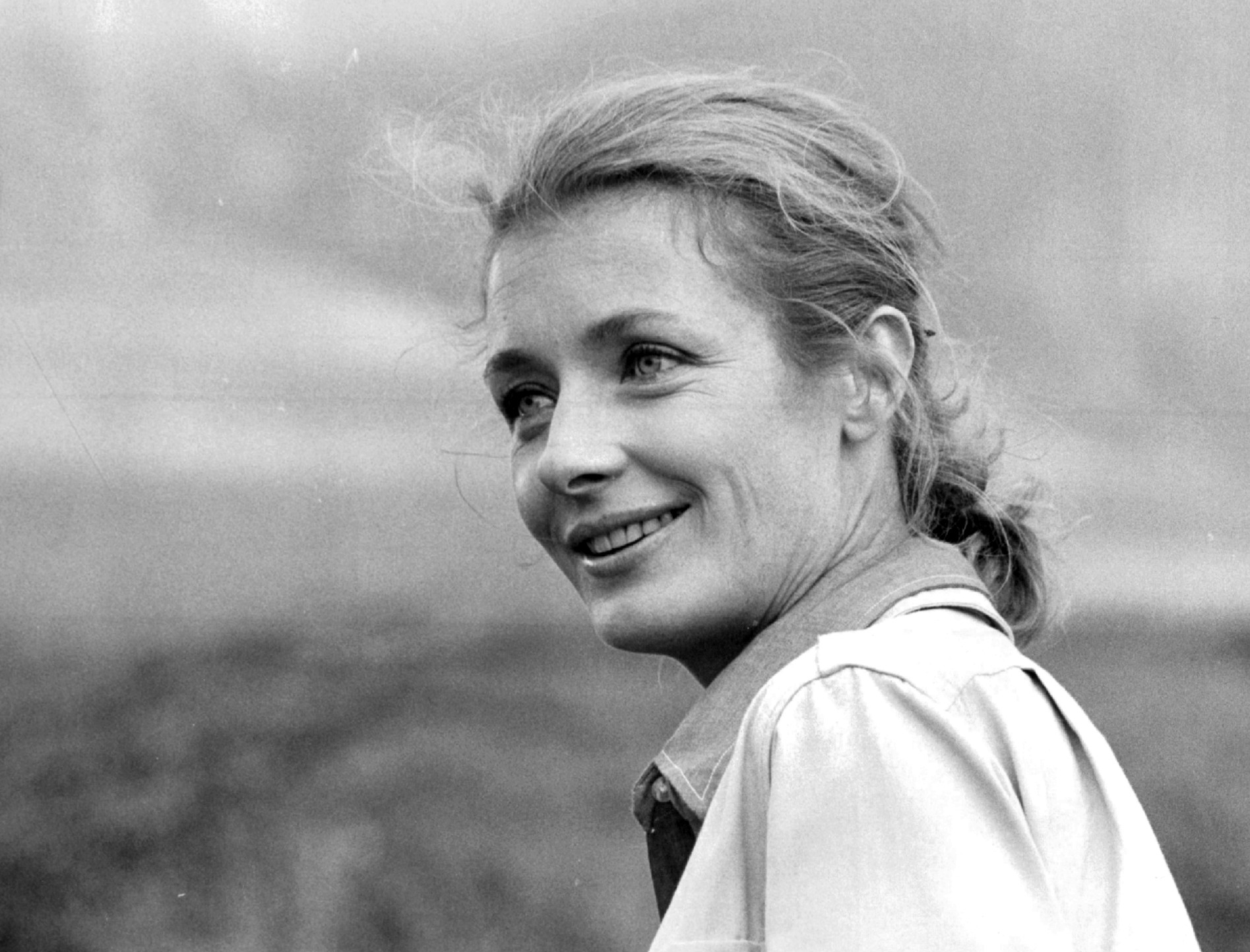 Photo of Diana Muldaur as Joy Adamson from the television program Born Free.